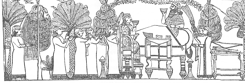 Feast of Assurbanipal. Drawing of basrelief from British Museum.